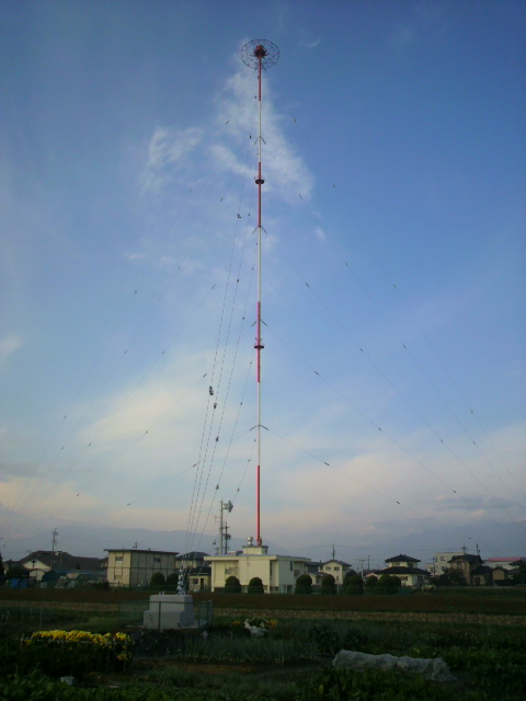 NHK Shimadachi Radio Transmitting Station in Matsumoto, Nagano prefecture NHK Radio 1:540kHz 1kW NHK Radio 2:1512kHz 1kW